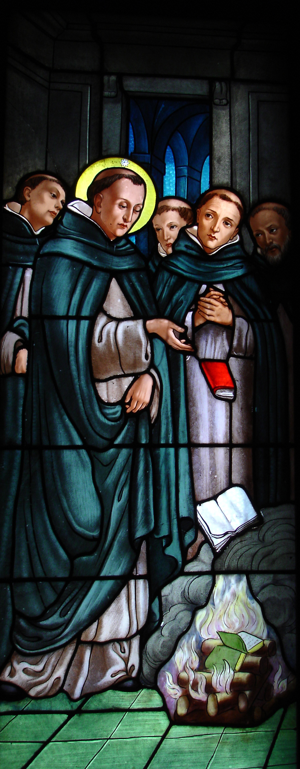 Stained-glass window dedicated to St. Dominik Guzman in Santuario Madonna della Guardia di Tortona